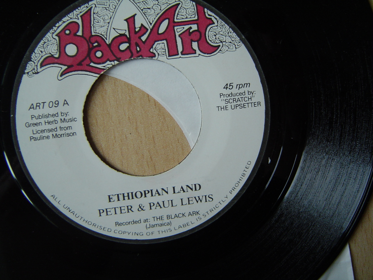 Can't stop listen to this - Great vocals, fantastic riddim ... black gold ...